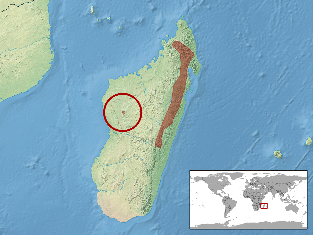 geographic distribution of Calumma malthe (Native: Madagascar)